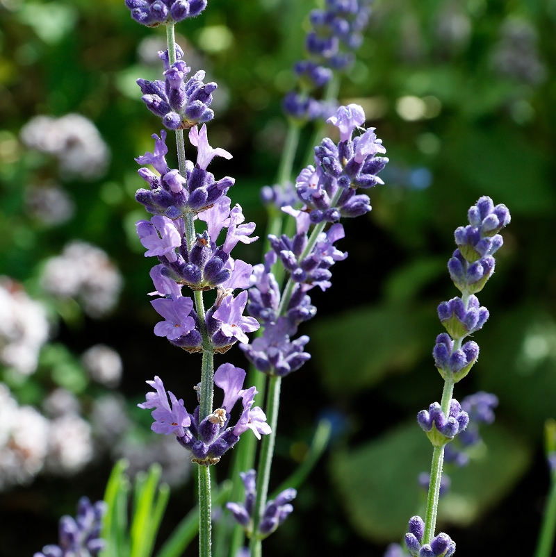 Lavandula angustifolia